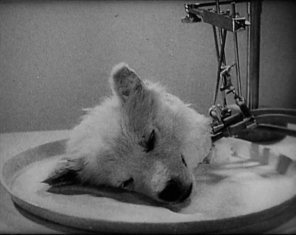 This is a screenshot from the film "Experiments in the Revival of Organisms," from the Prelinger Archive. The film is in the public domain.